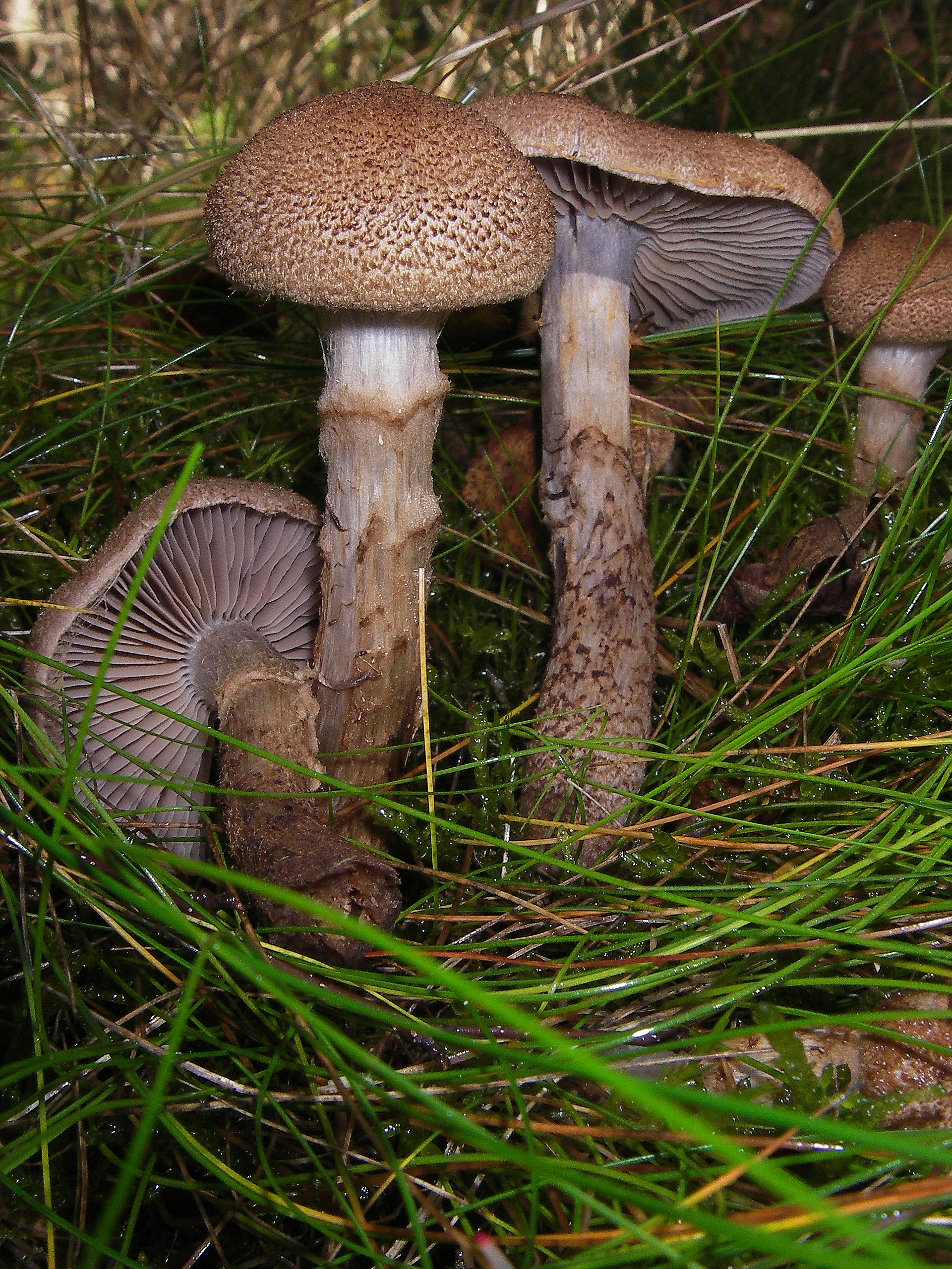 The making of this document was supported by the Community-Budget of Wikimedia Germany.